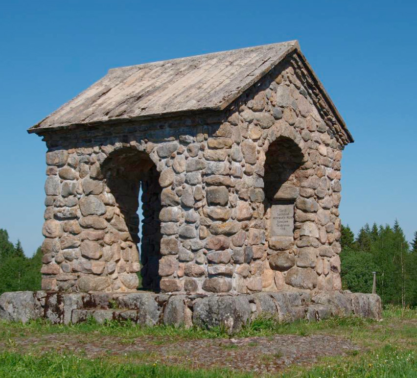 Chapel or monument to celebrate Herpman brothers, local rebels against Russian rule between 1712-1721. Erected 1928 on a grassy knoll in Ampiala, Keuruu, Finland.